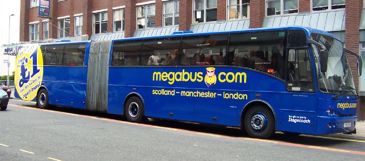 A Jonckheere bodied articulated coach in Manchester on a Megabus service from London to Glasgow